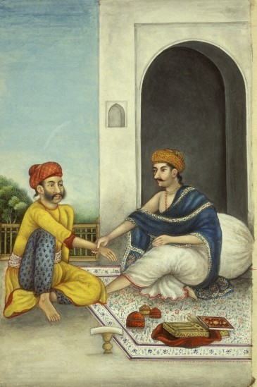 L0021022 Credit: Wellcome Library, London Physician taking pulse; by a Delhi painter. Watercolour 1825 Published: [Delhi], [ca. 1825] Size: image 17.3 x 11.5 cm. Collection: Iconographic Collections Library reference no.: Iconographic Collection 5113i Full Bibliographic Record Link to Wellcome Library Catalogue Copyrighted work available under Creative Commons by-nc 2.0 UK: England & Wales